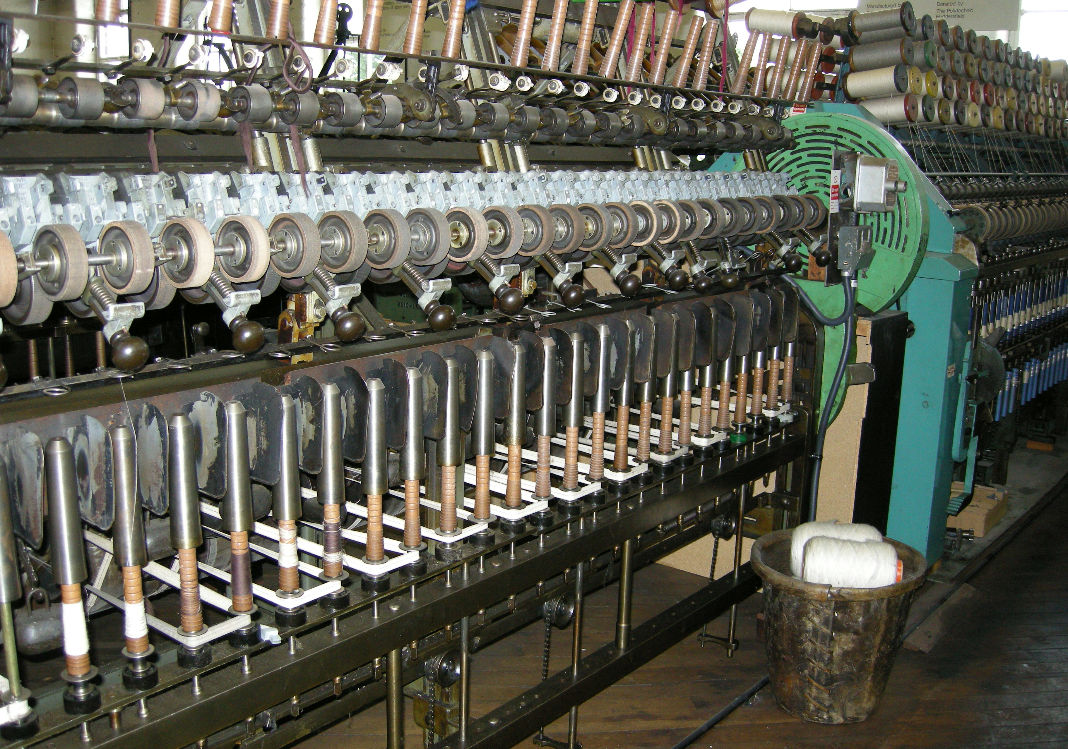 Spinning machine at Bradford Industrial Museum, Bradford, West Yorkshire, England. 53.48'.40".N; 1.43'.16".W.